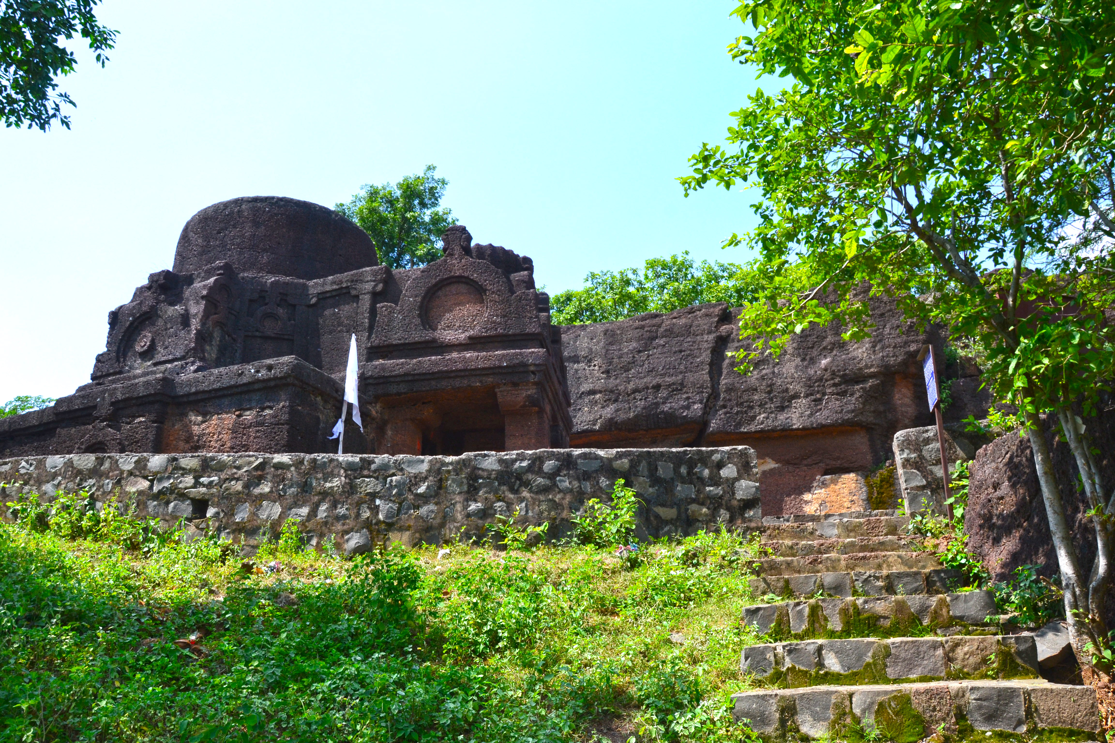 binnayaga caves ,dug ,jhalawar ,rajasthan.this place is one of its kind in rajasthan but needs serious attention as there will be no facilities for tourist . these are only reachable by road but has no facilities and security for anyone who loves to see this beautiful caves . serious attention needed for protection of this place and needs to be identified by local and foriegn tourist also